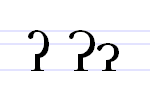 Comparison of glottal-stop symbols. From left to right: U+0294 (ʔ), U+0241 (Ɂ), and U+0242 (ɂ). The first of these symbols is for phonetic transcriptions; the latter two glyphs are letters, uppercase and lowercase respectively, derived from the former, and are to be used in language orthographies.